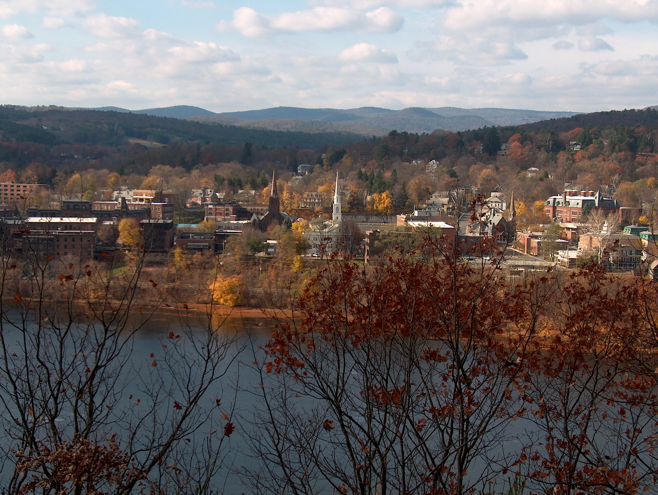 Brattleboro, Vermont, with the Connecticut River in the foreground.